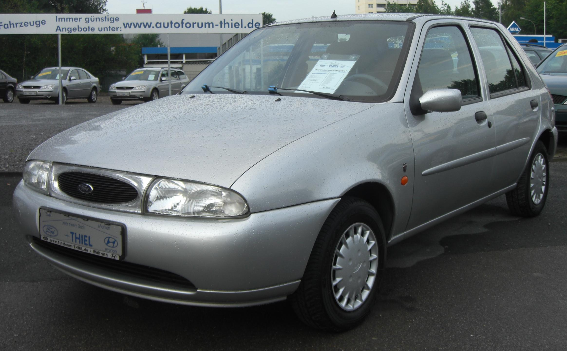 Ford Fiesta MK4